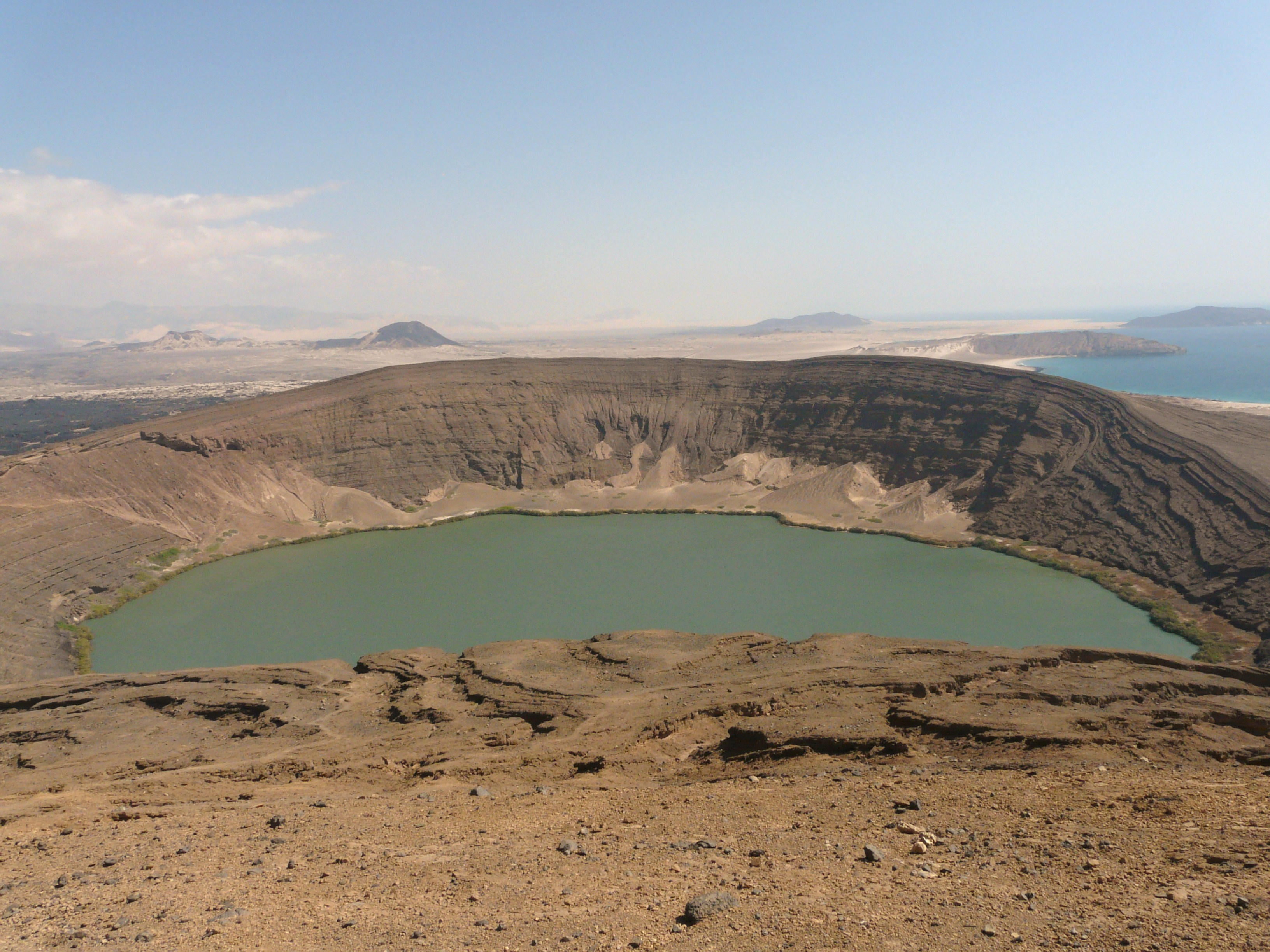 Bir Ali Crater Between Shabwah and Hadhramaut, South Yemen. The crater is about 1.3 Km wide and contains some rainy water? with a surface of about 800 meters wide.